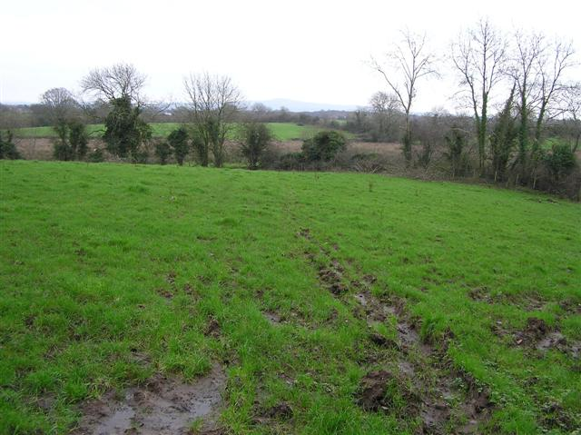 Aghaboy Townland Looking south-east towards Tannaghmore